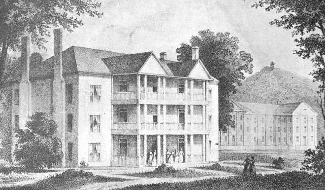 Sketch of the Asheville Female College, as it appeared in 1856, in Asheville, North Carolina.